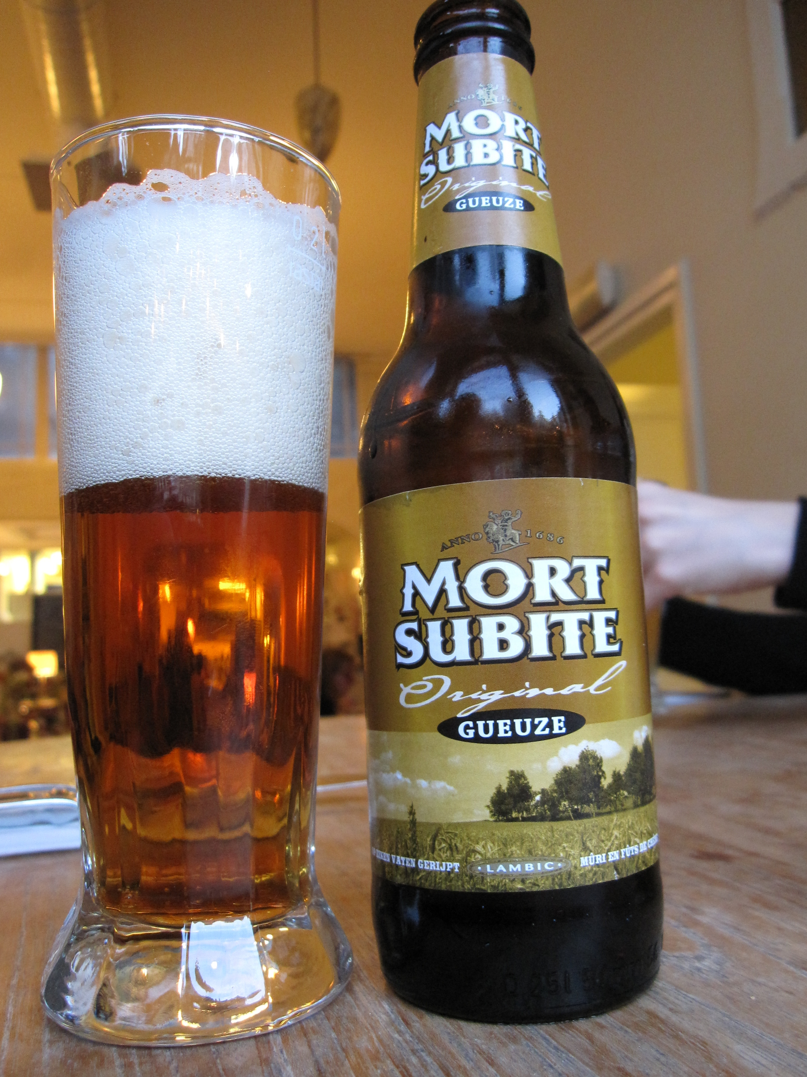 A bottle of Mort Subite Gueuze Lambic at a cafe in Amsterdam, The Netherlands. The selection of beer at this particular cafe wasn't all that great but as a fan of Gueuze I decided to give this beer a try while waiting for my dinner. It poured a lovely clear golden color with a huge white head. Aroma was mild, with hints of lambic sourness but also some sweetness. The flavor surprised me with its strong sweet character, the sweetness totally dominated the wild yeast aspect of this beer. I would not dream of calling this a Gueuze, this beer had more in common with a sweet cider.